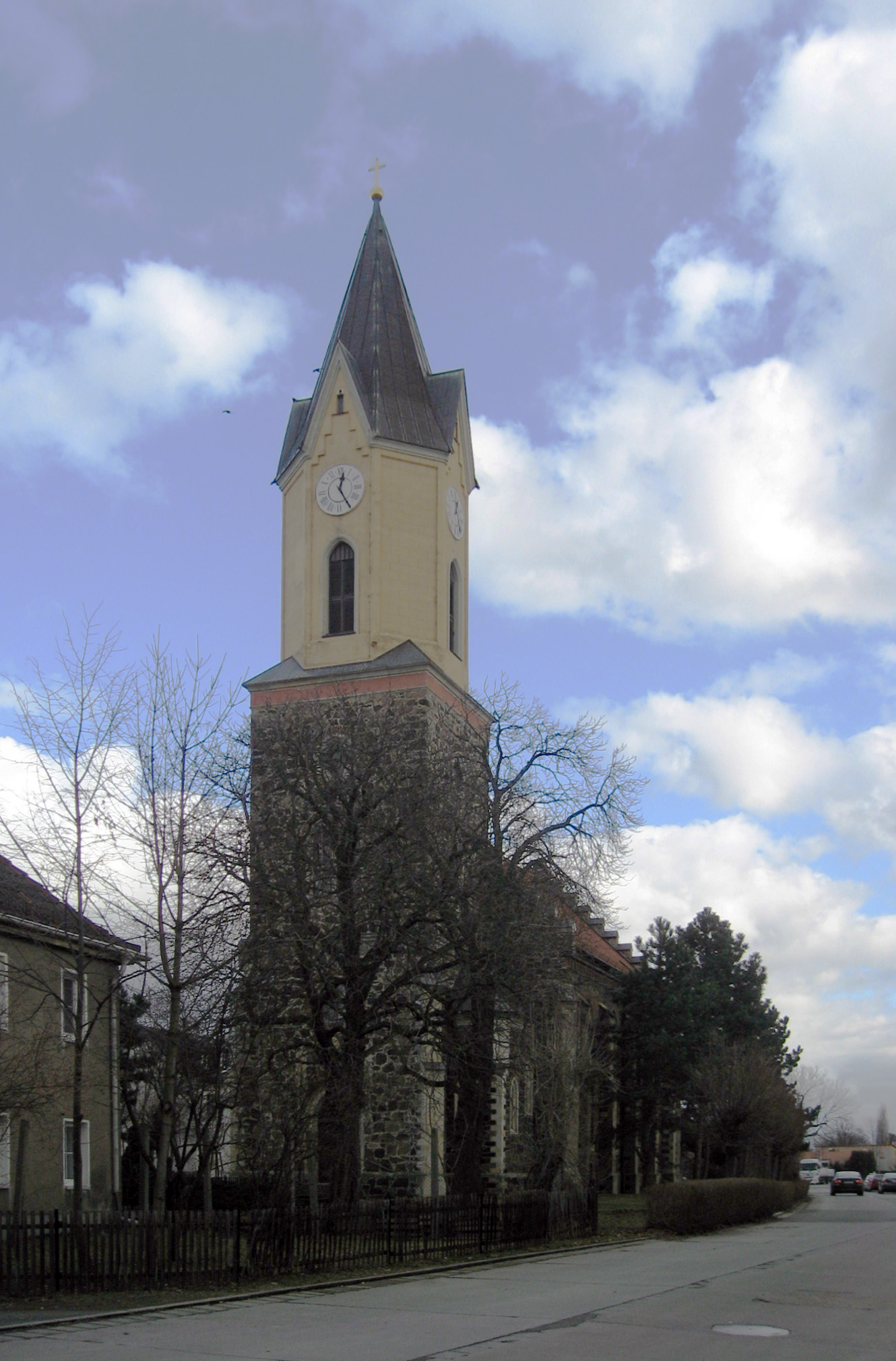 Church Leipzig-Sommerfeld, Arnoldplatz